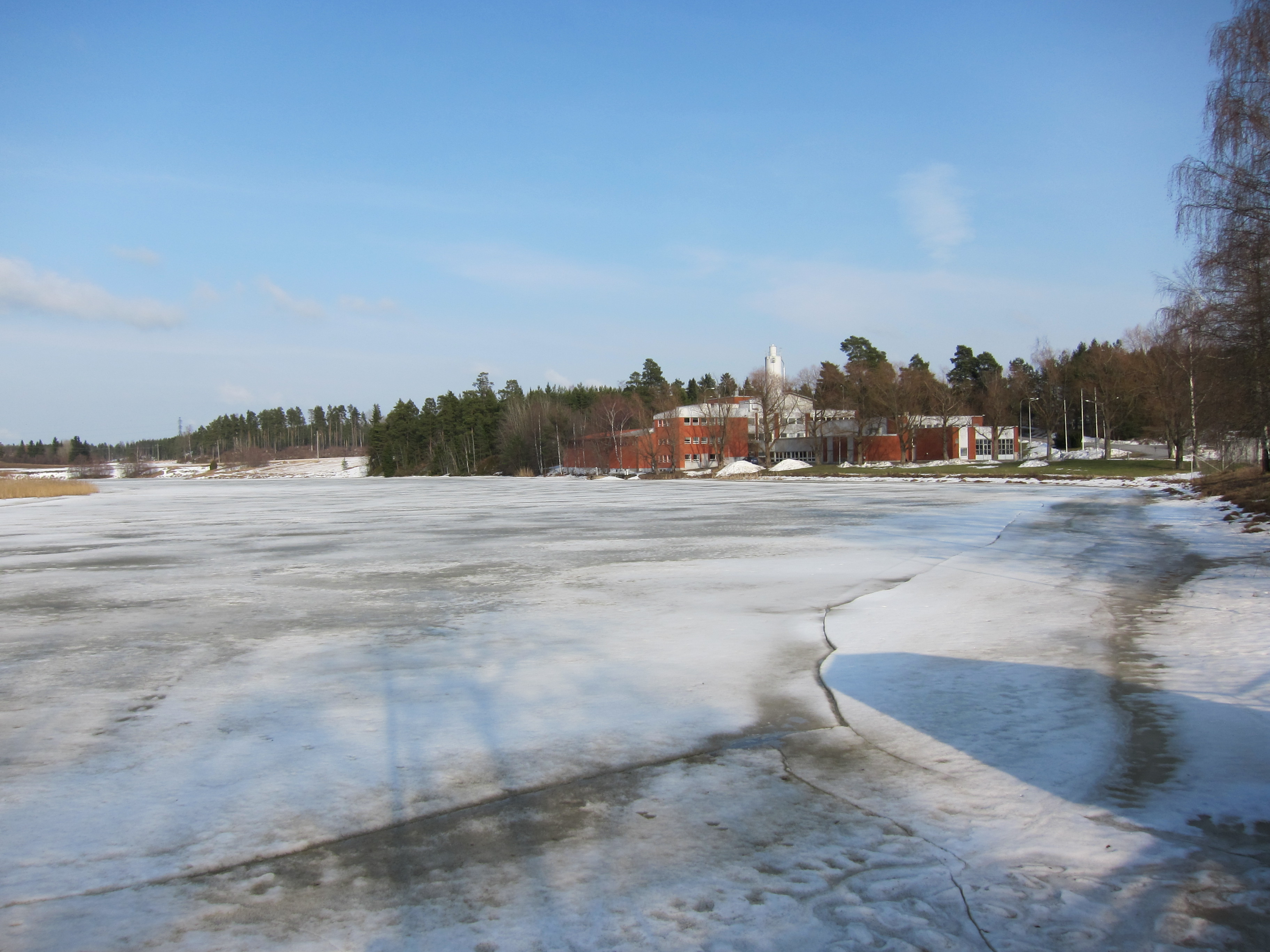 Raisionjoki is a river in Finland Proper. Its origins are in Rusko, and it flows through Raisio and Turku to the Archipelago Sea.